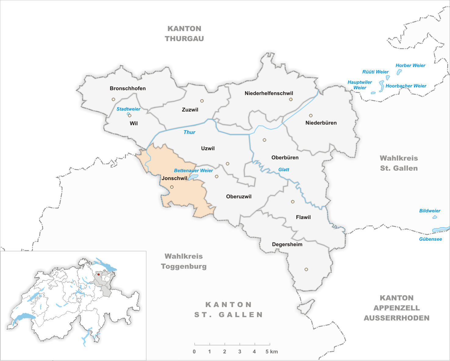 Municipality Jonschwil